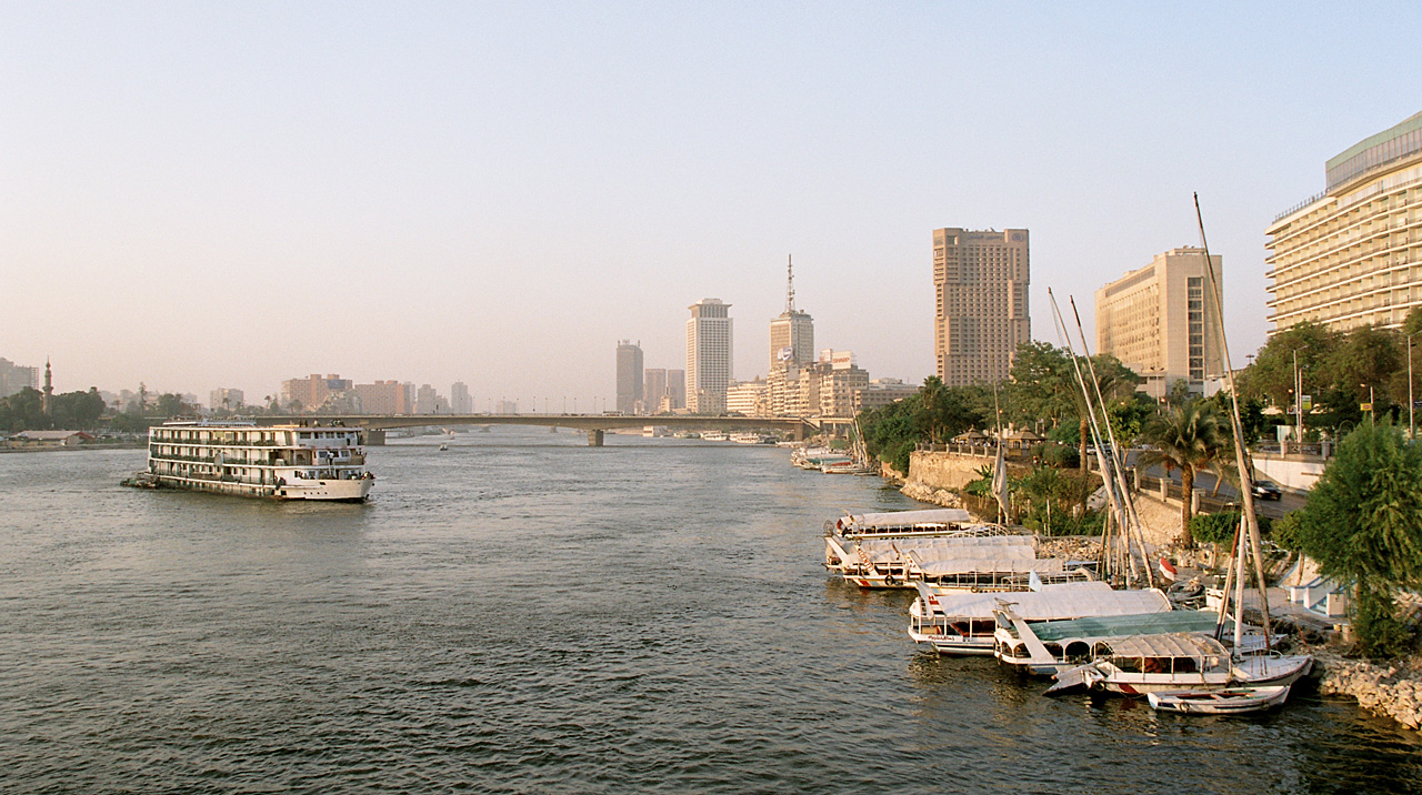 The Nile and 6th October Bridge, as seen from Qasr al-Nil Bridge, Downtown Cairo, Egypt. October 2004. A view towards north.